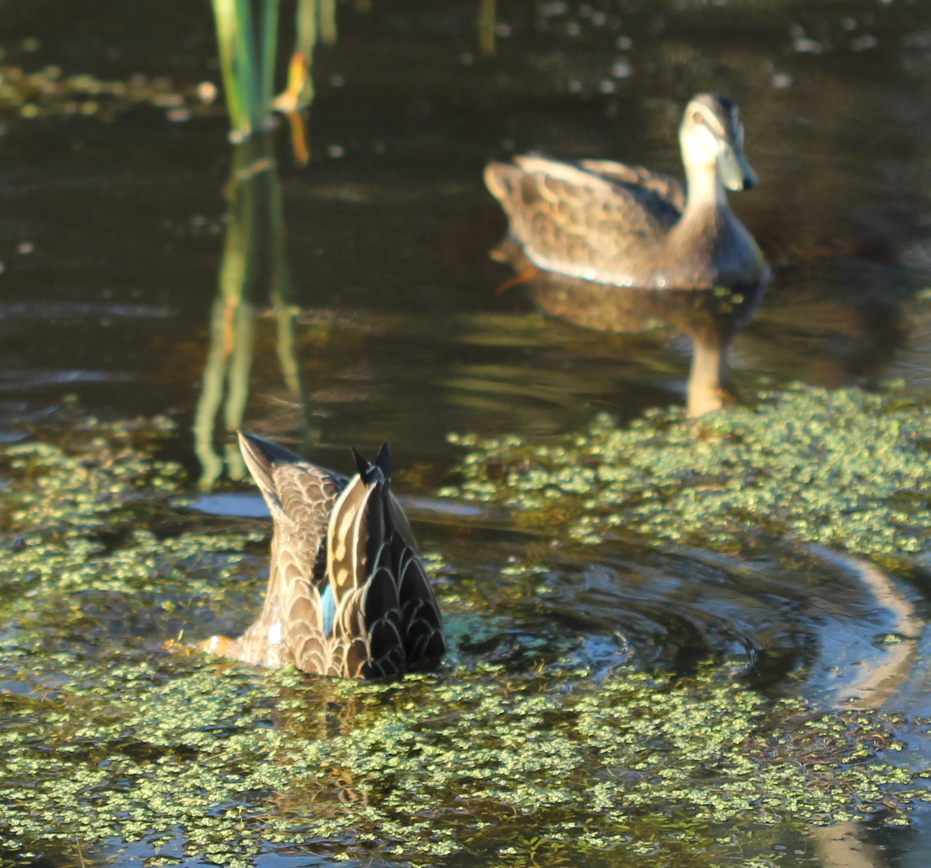 A pair of Pacific Black Ducks in Victoria, one of which is ducking. In September.